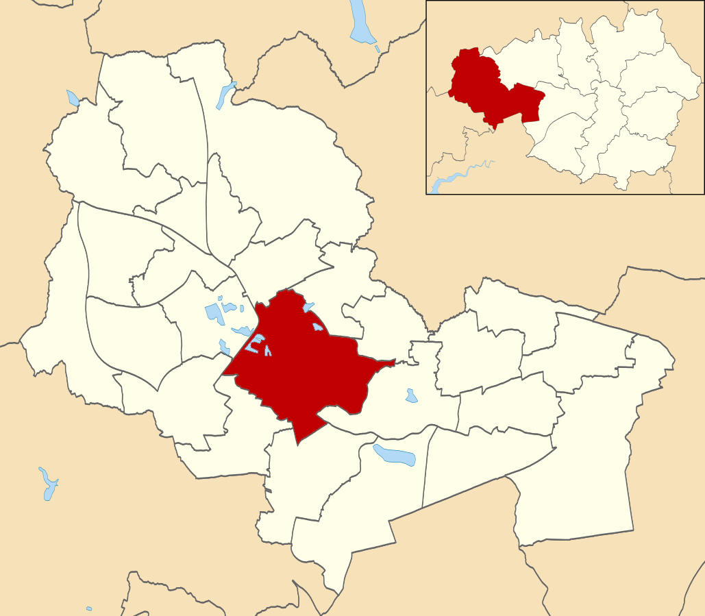 Map showing the location of Abram ward within Wigan Metropolitan Borough Council